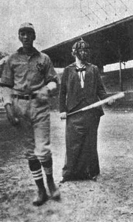 A man and a woman standing on a baseball diamond. The man is wearing a player's uniform; the woman is wearing a loose, tailored suit and an umpire's mask, and holds a bat.